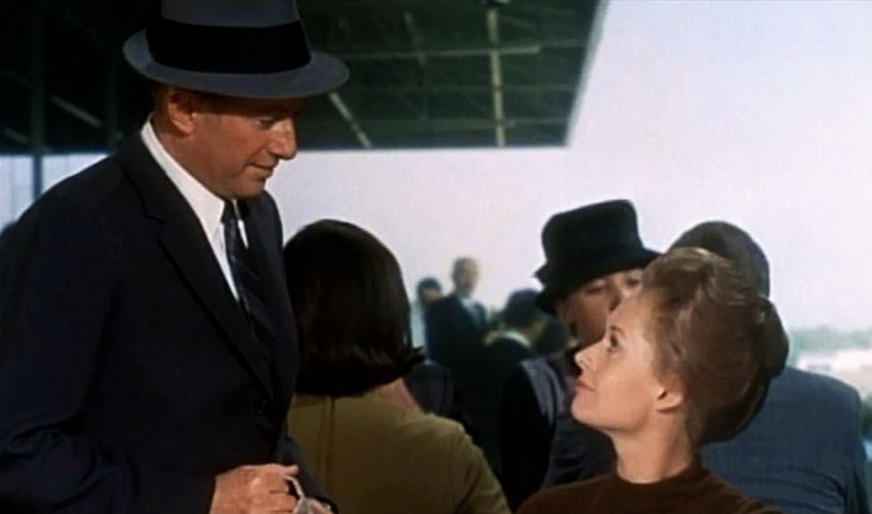 Milton Selzer & Tippi Hedren in Marnie - trailer (cropped screenshot)